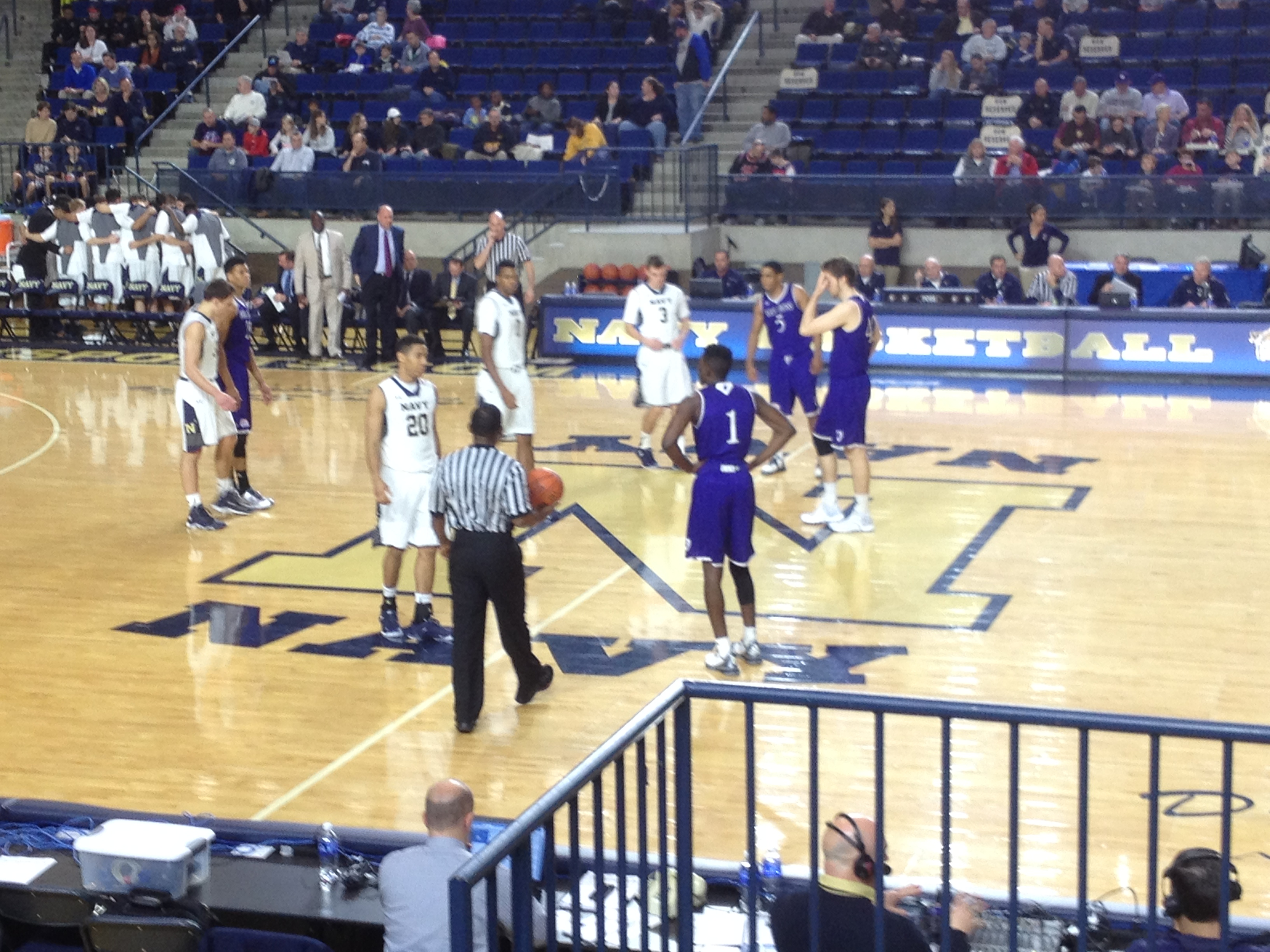 A photo of Alumni Hall at the US Naval Academy just prior to tipoff between Holy Cross and Navy